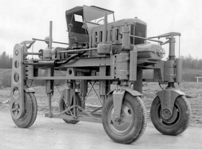 Early Valmet straddle carrier from the 1940s